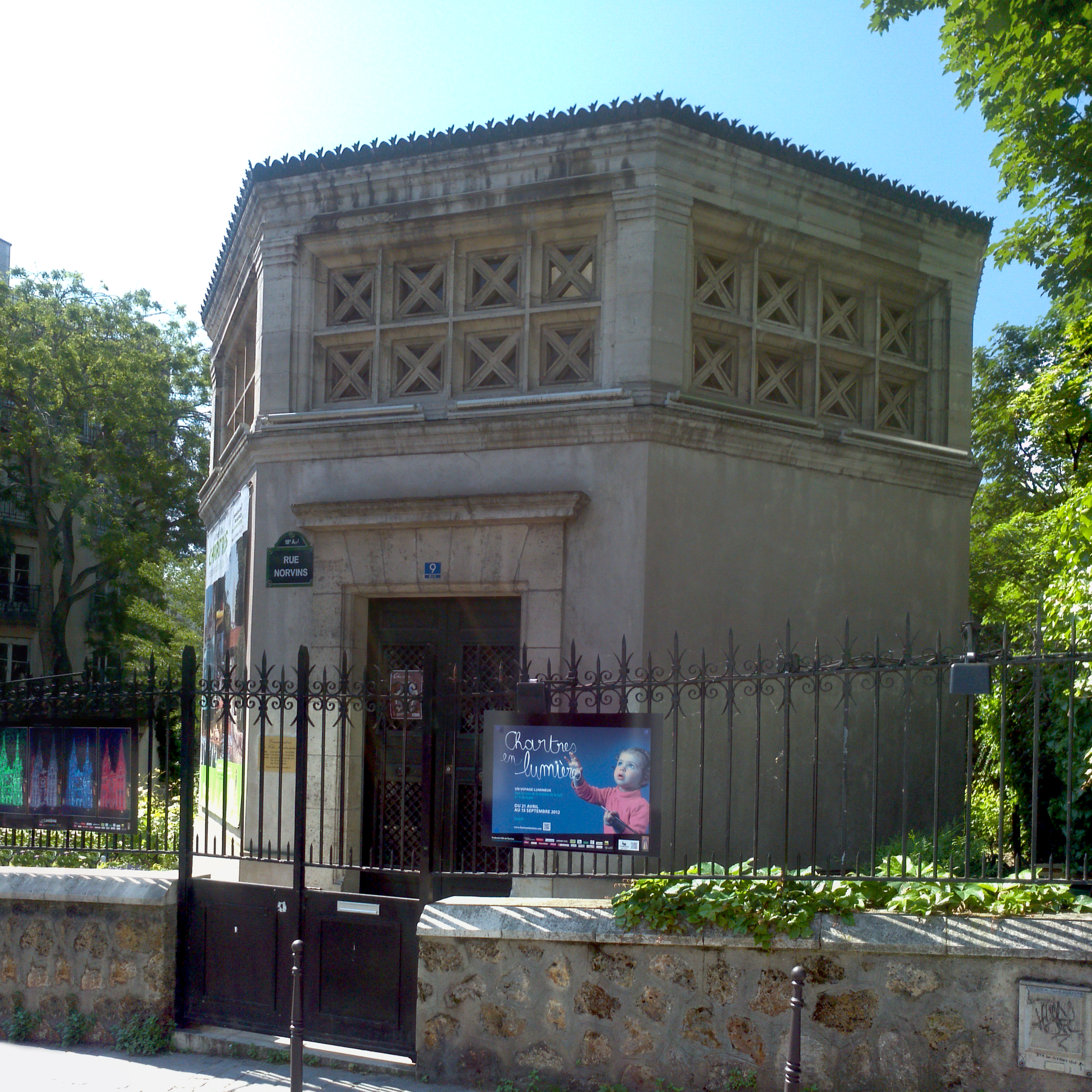 Commanderie du Clos Montmatre